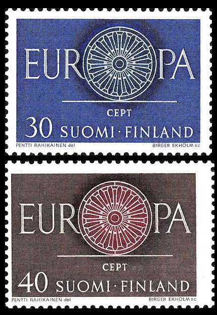 1960. Stamps of Finland under the program "EUROPE"